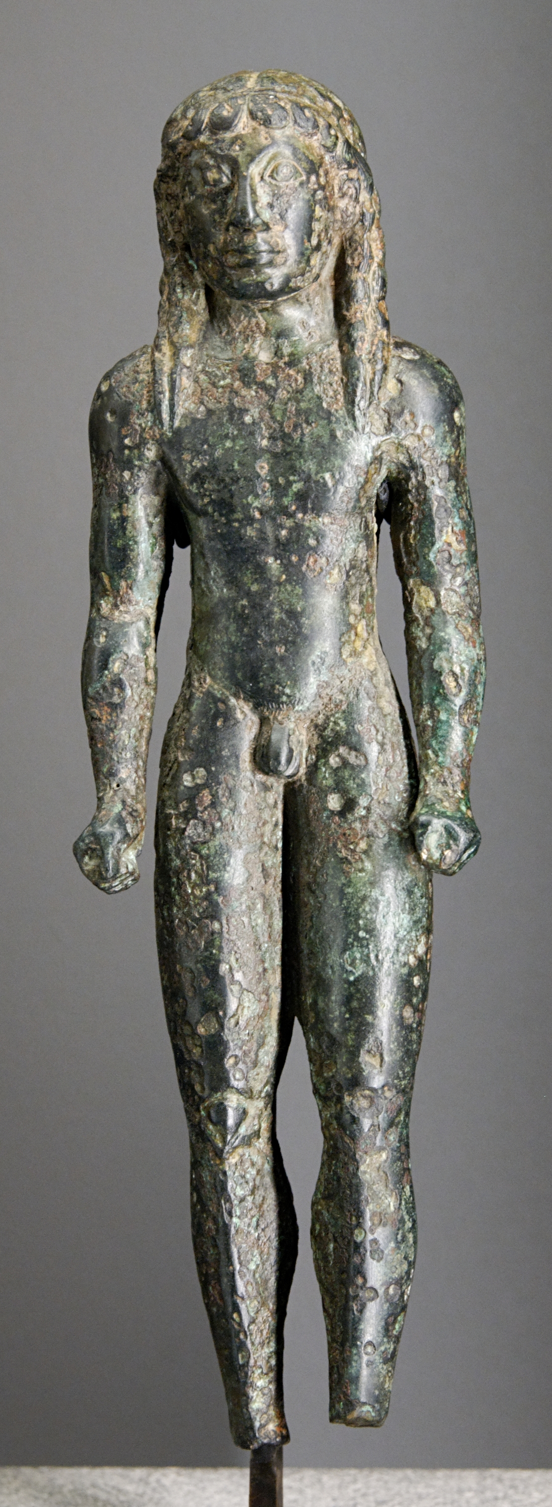 Kouros. Bronze, Argian style, ca. 575–570 BC.